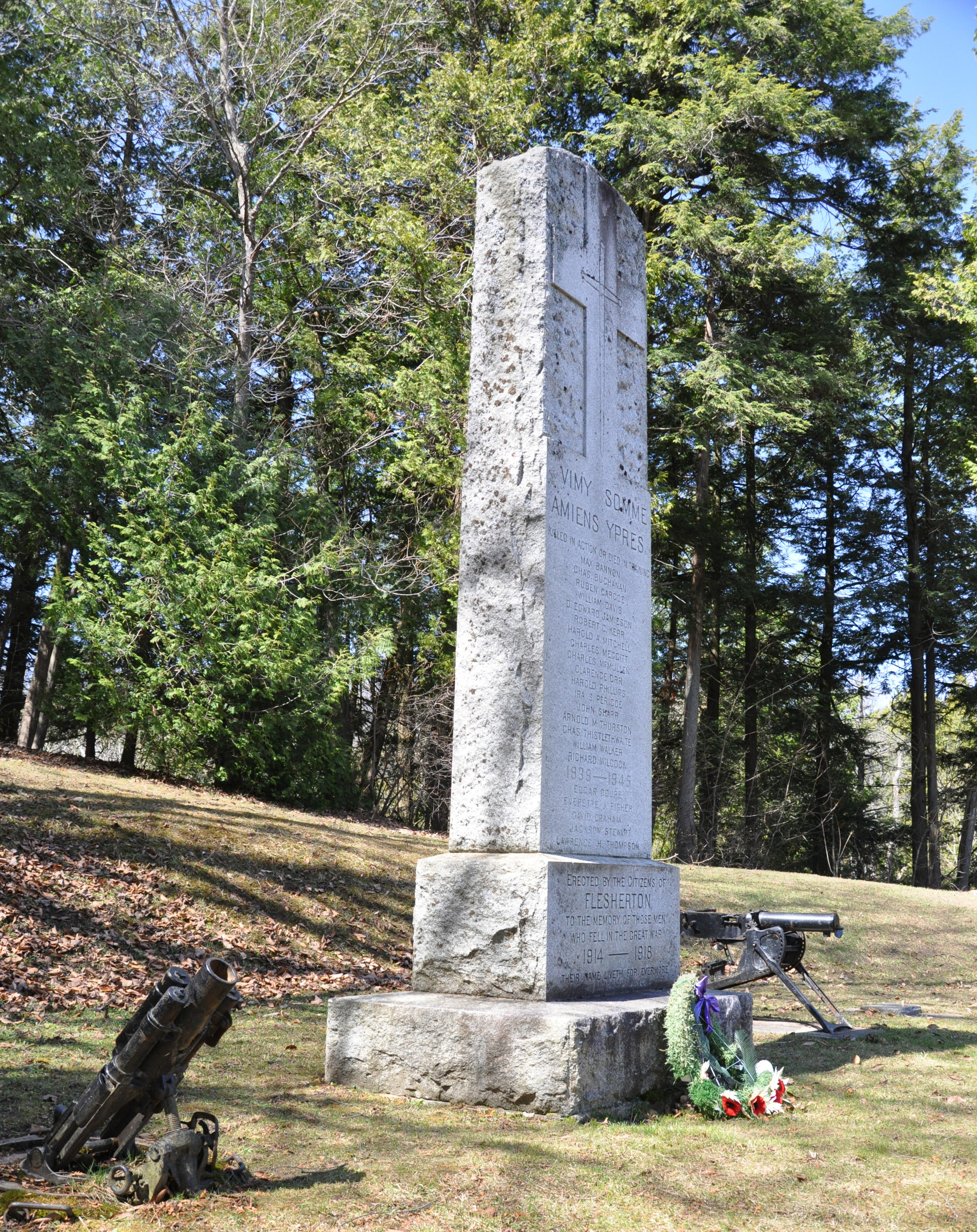 The cenotaph at Flesherton, Ontario, honouring the local men who enlisted for World War I & II and did not return.